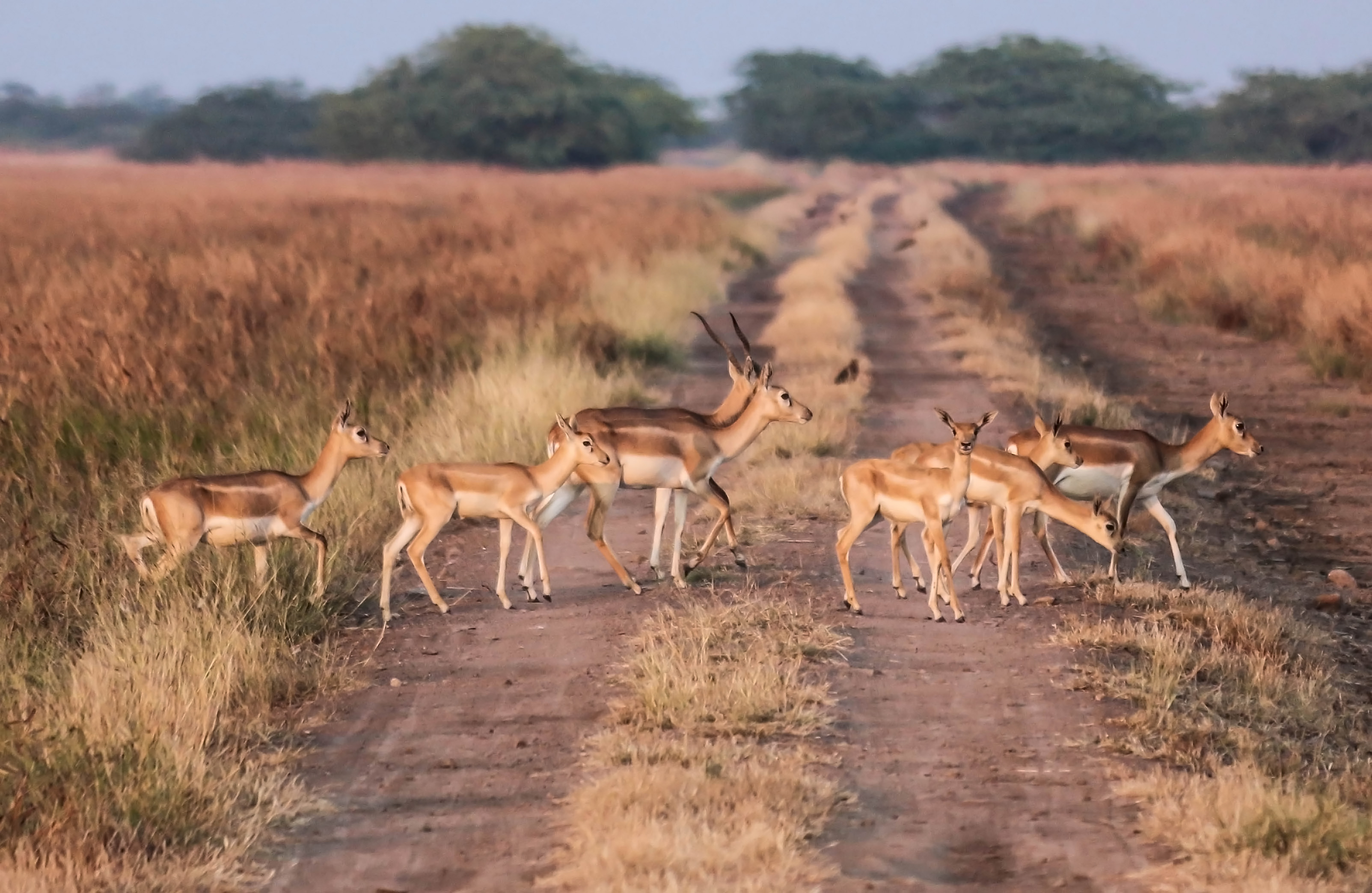 Blackbucks (Antilope cervicapra) in Blackbuck National Park, Velavadar, India